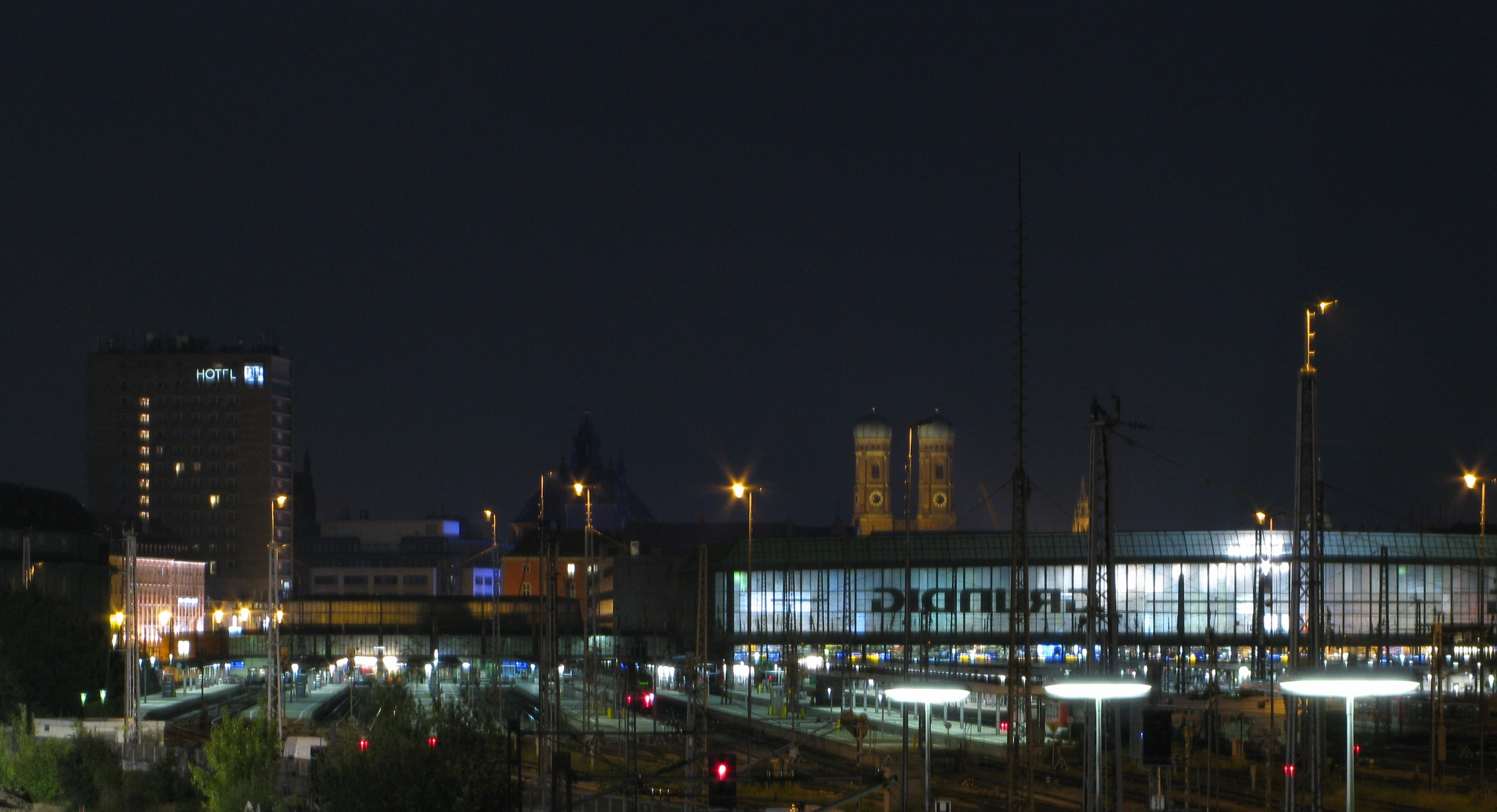 The Hauptbahnhof (central station) of Munich with the two towers of the Frauenkirche in the background.